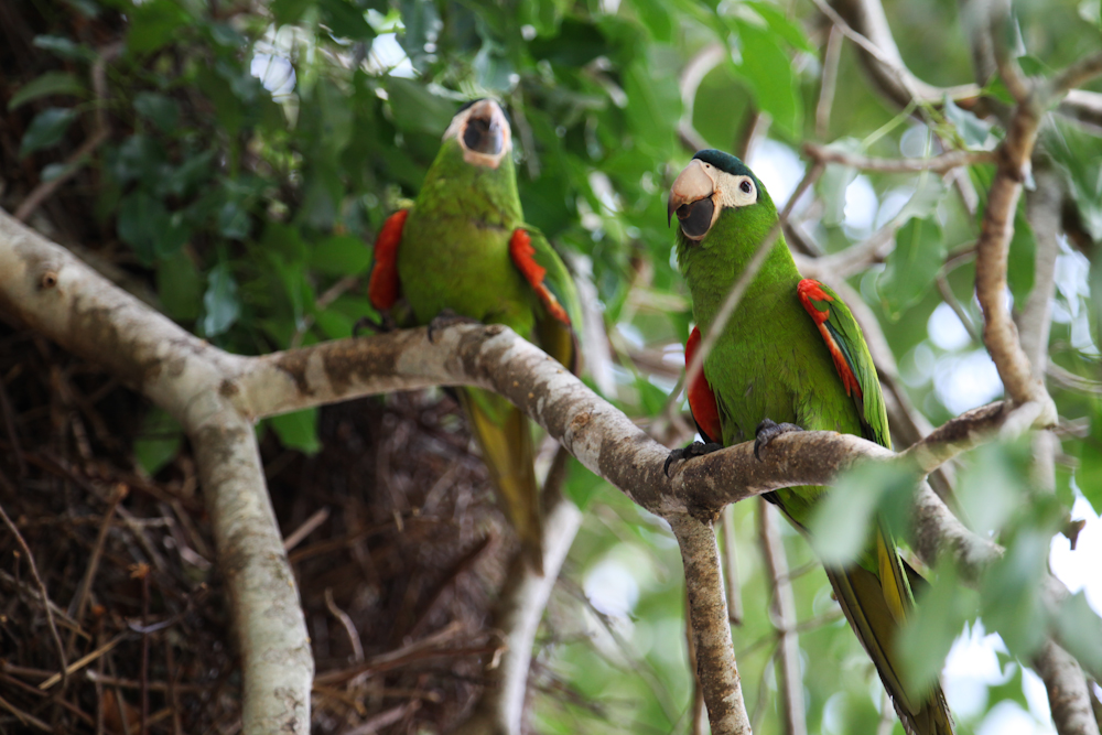 Two Red-shouldered Macaws in the Pantanal, Mato Grosso, Brazil. This subspecies is also called the Noble Macaw.